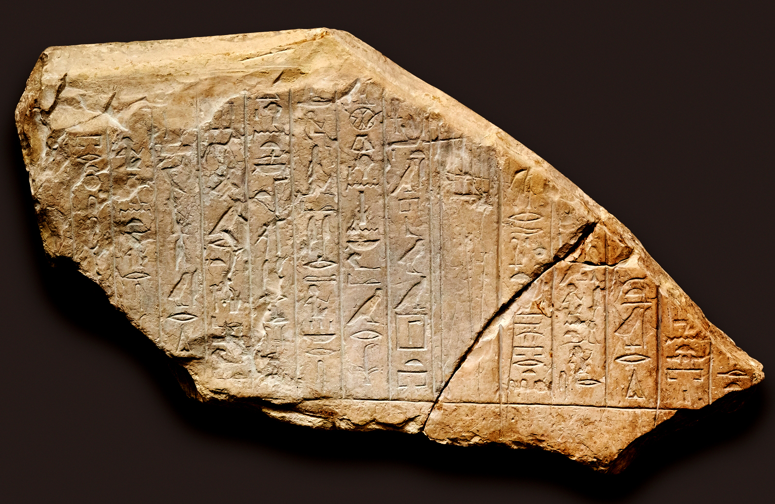 Fragmentary decree of king Neferkauhor, appointing the brother of Idy (the latter being the vizier and overseer of Upper Egypt) to a post in the Temple of Min at Coptos. Reign of Neferkauhor, 7th-8th Dynasty, First Intermediate Period. Acc. No. 14.7.12